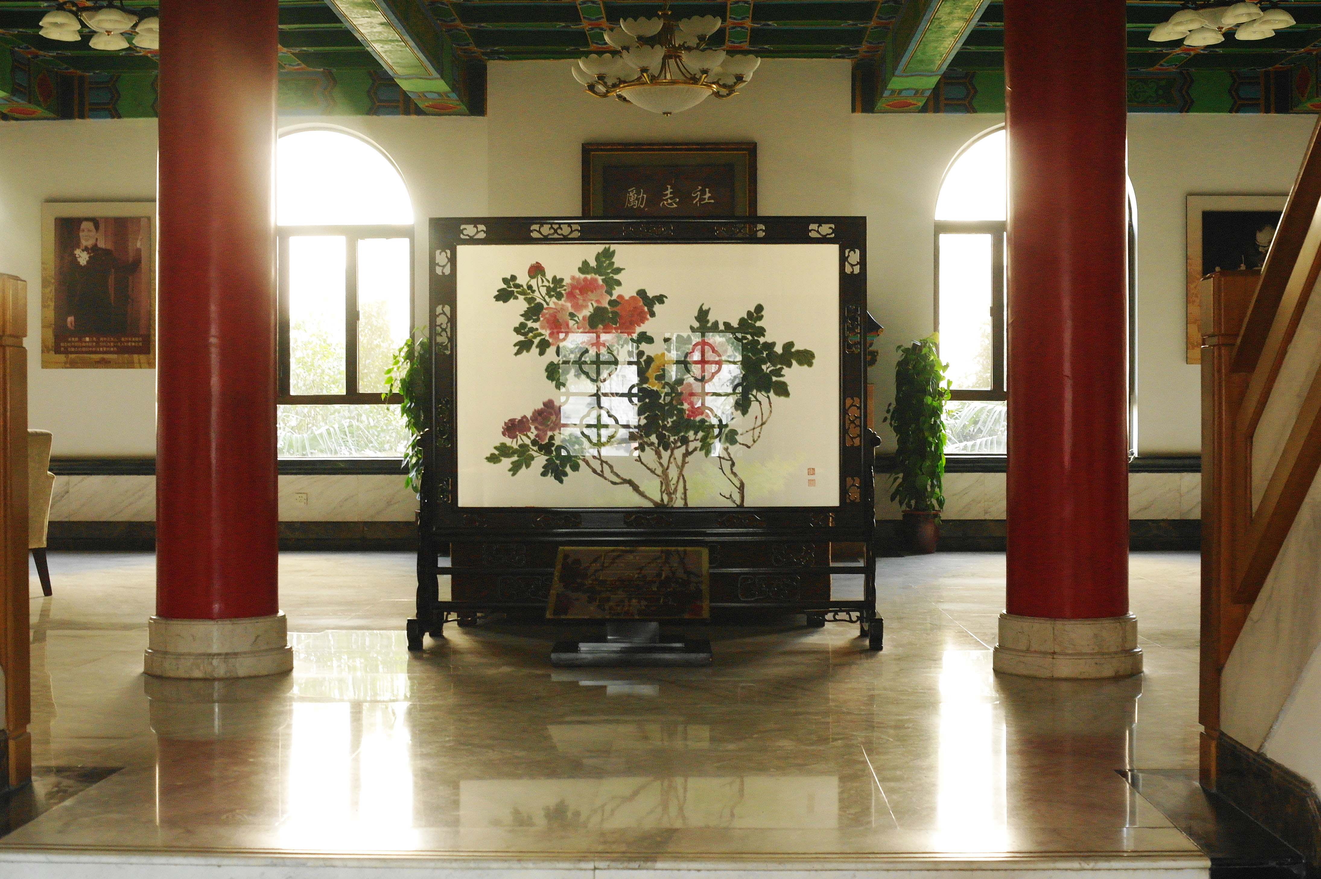 Lizhi She — The interior through the glass windows of the Lizhi She front door.